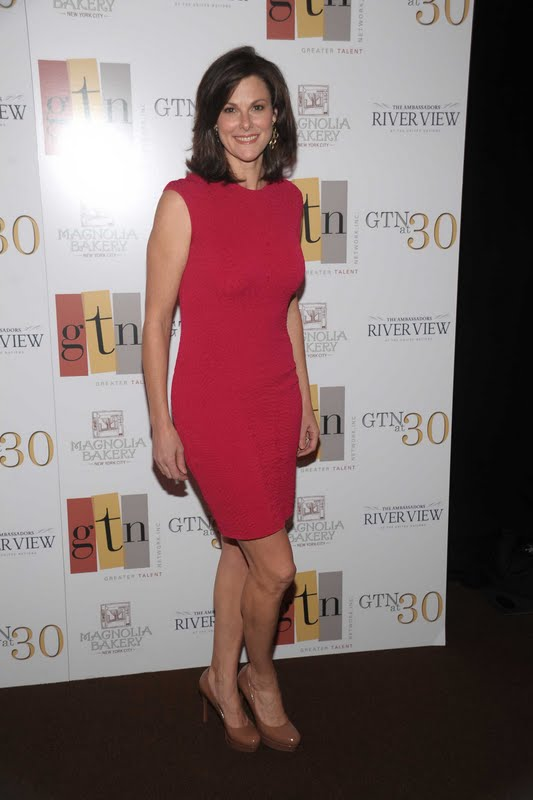 Greater Talent Network’s 30th Anniversary, NYC May 2 2012